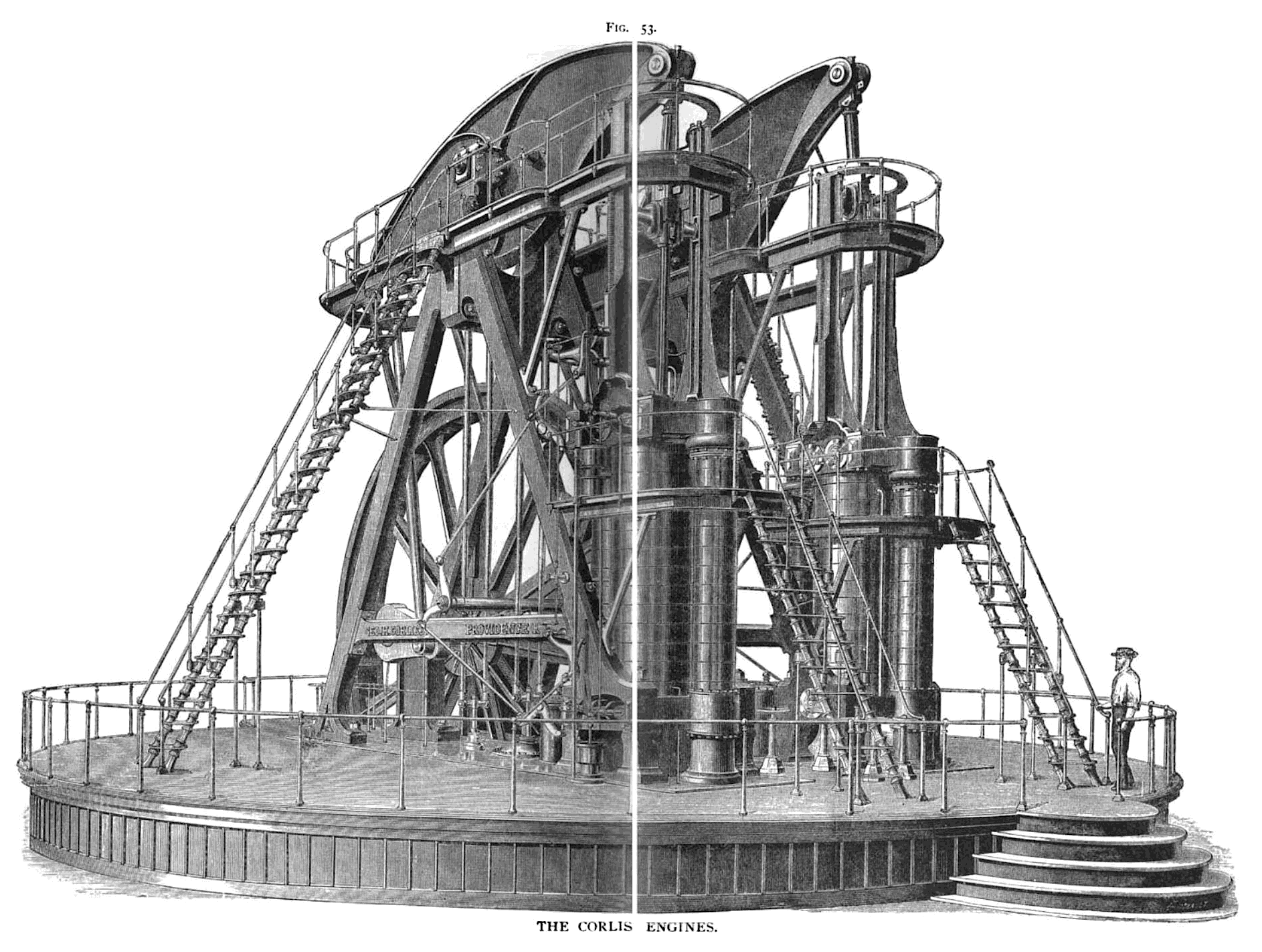 The Corliss Centennial engine Quoted from page 97: "For future reference, a plate is presented (Fig. 53) showing a large perspective view of the engines ... There were two condensing beam-engines, which were proportioned to work expansively, with a steam-pressure of 80 pounds. ... The cylinders were each 40 inches in diameter, with 10-feet stroke of piston. ..." Originally printed as a 2-page spread.